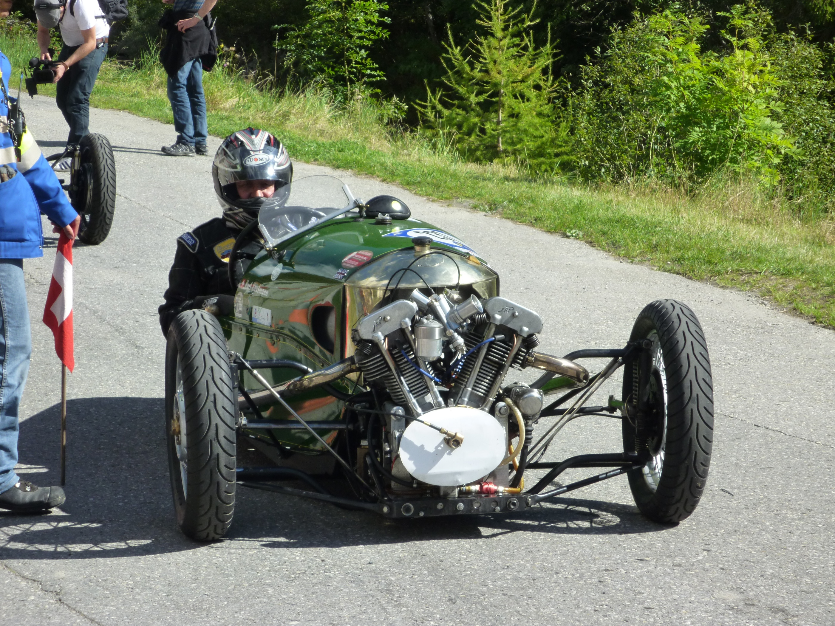 A Morgan Three Wheeler from 1930 at Arosa ClassicCar race